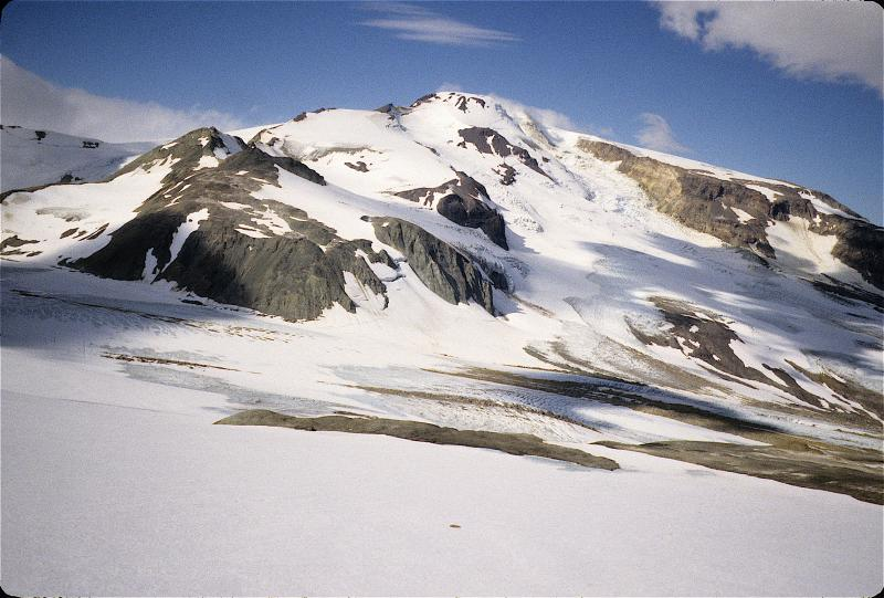 Snowy Mountain, located northeast of the main Katmai cluster of volcanoes. Snowy was named during the 1917 National Geographic Society expedition to Katmai. Snowy has an active fumarole field at the summit of its tallest peak.